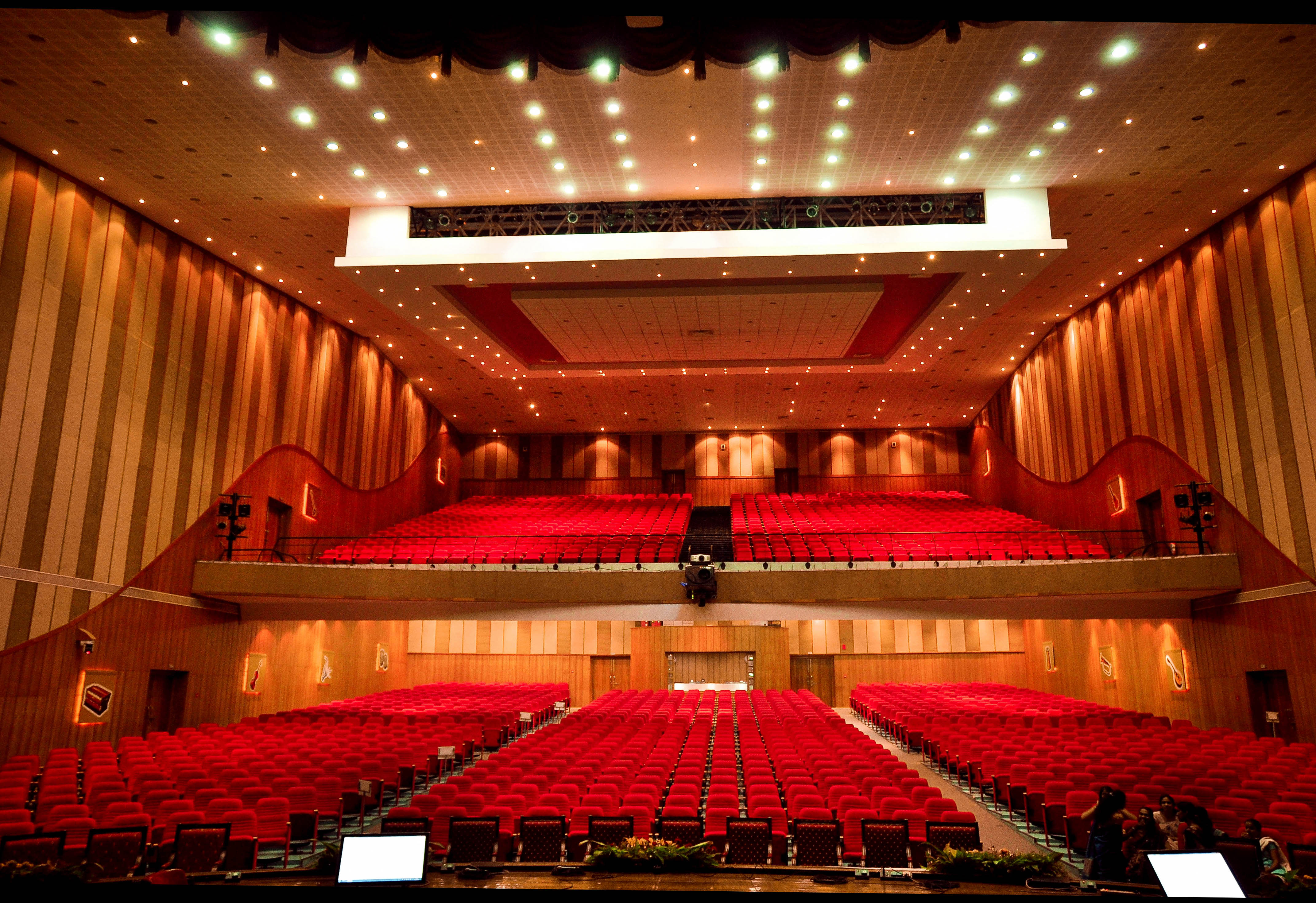 Christ University Auditorium